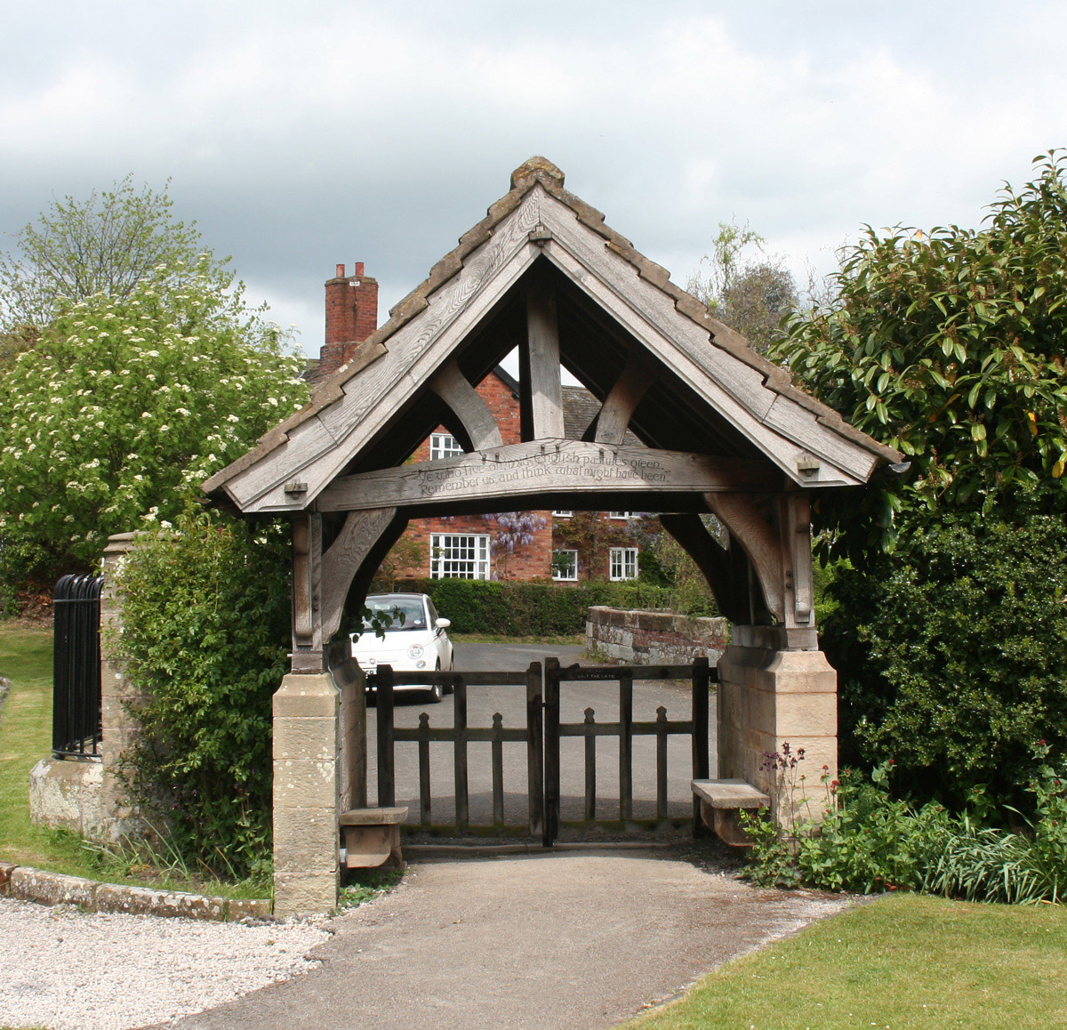 Lychgate at St Michael's, Marbury (near Whitchurch)